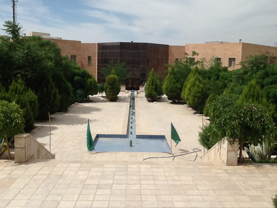 This is a photo of the yard of University of Religions and Denominations which is located in Qom, Iran. The entrance of "Imam Musa Sadr" building is seen in this picture. The photo is taken in the morning of Monday, May 4 2015 by Hamed Aghajani